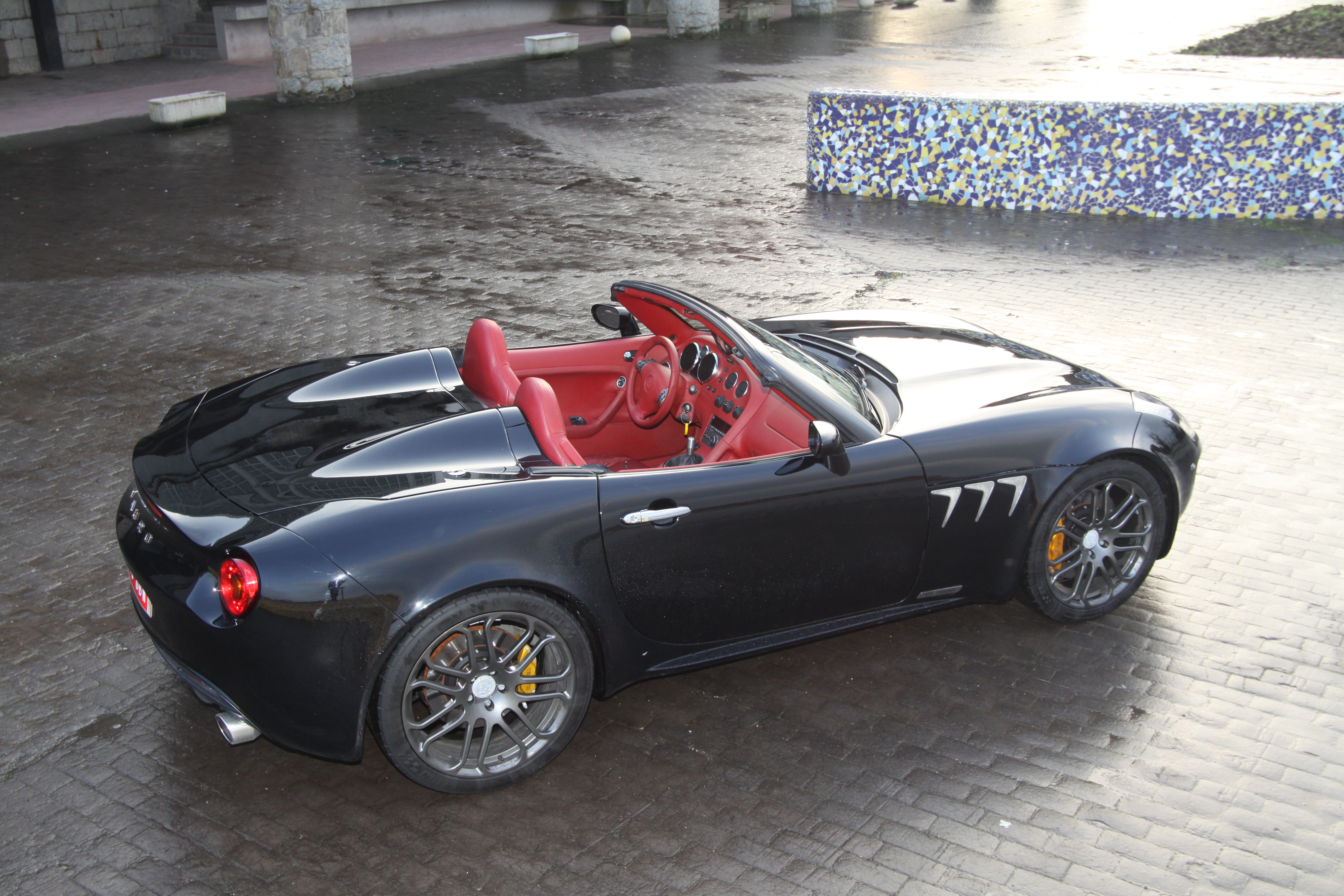 ´Tauro Sport Autro V8 Spider in Miami Beach